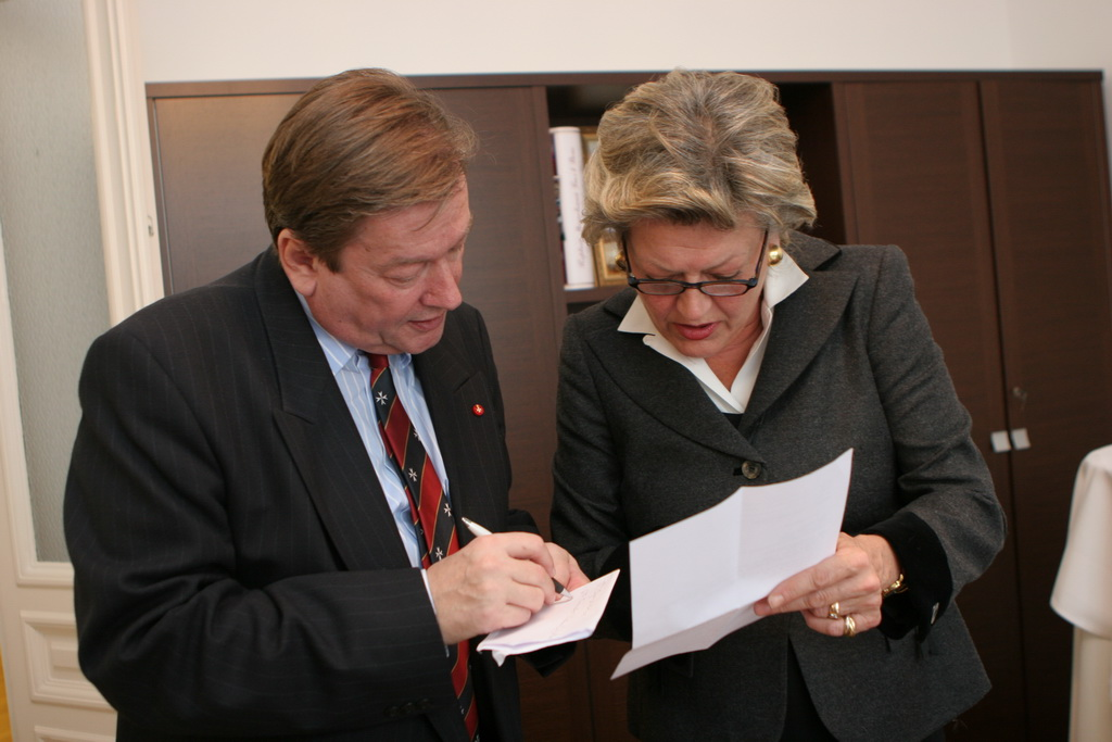 World Public Forum "Dialogue of Civilizations", 2002-2012 Photo Album